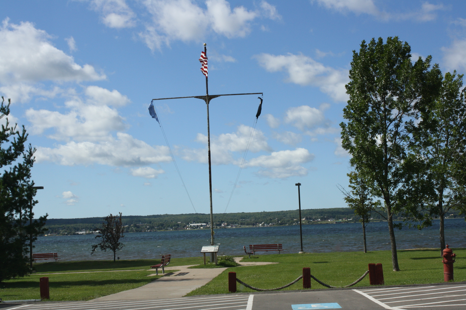 The park in L'Anse, Michigan looking at Lake Superior.